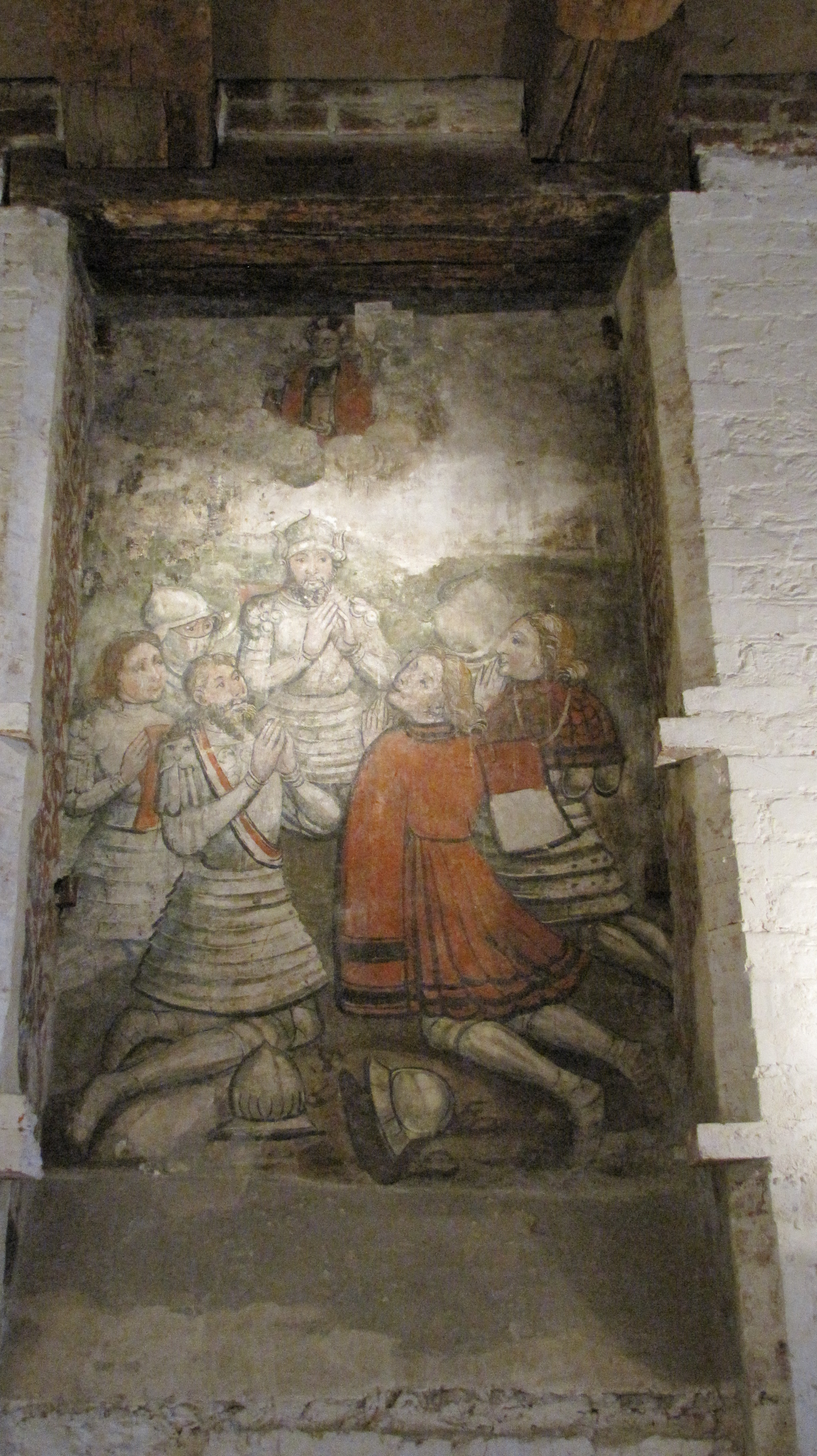 Gothic Fresco showing the apparition of St. Mary Magdalene to the hanseatic armies in the battle of Bonhöved in 1226, in Lübeck Town Hall